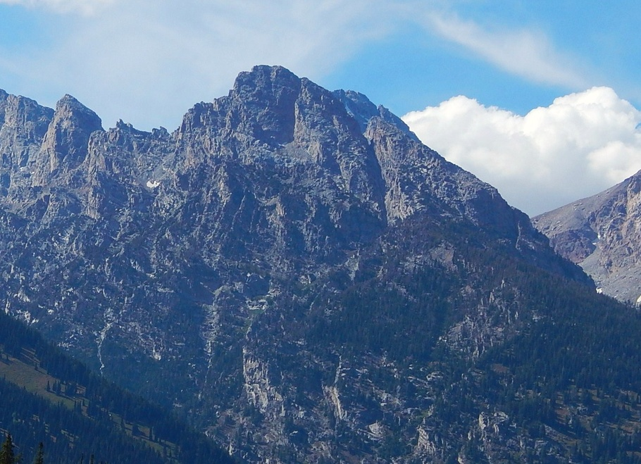 Nez Perce Peak in the Teton Range, Wyoming